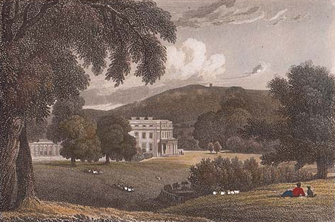 "Sandhill Park, Somersetshire, drawn by J.P.Neale, Engraved by W.Taylor, published by Scope(?) & C.Temple of M.. Finsbury (?) Square, London, 1829". Later tinted by hand. (Sandhill Park, Bishops Lydeard, Somerset)